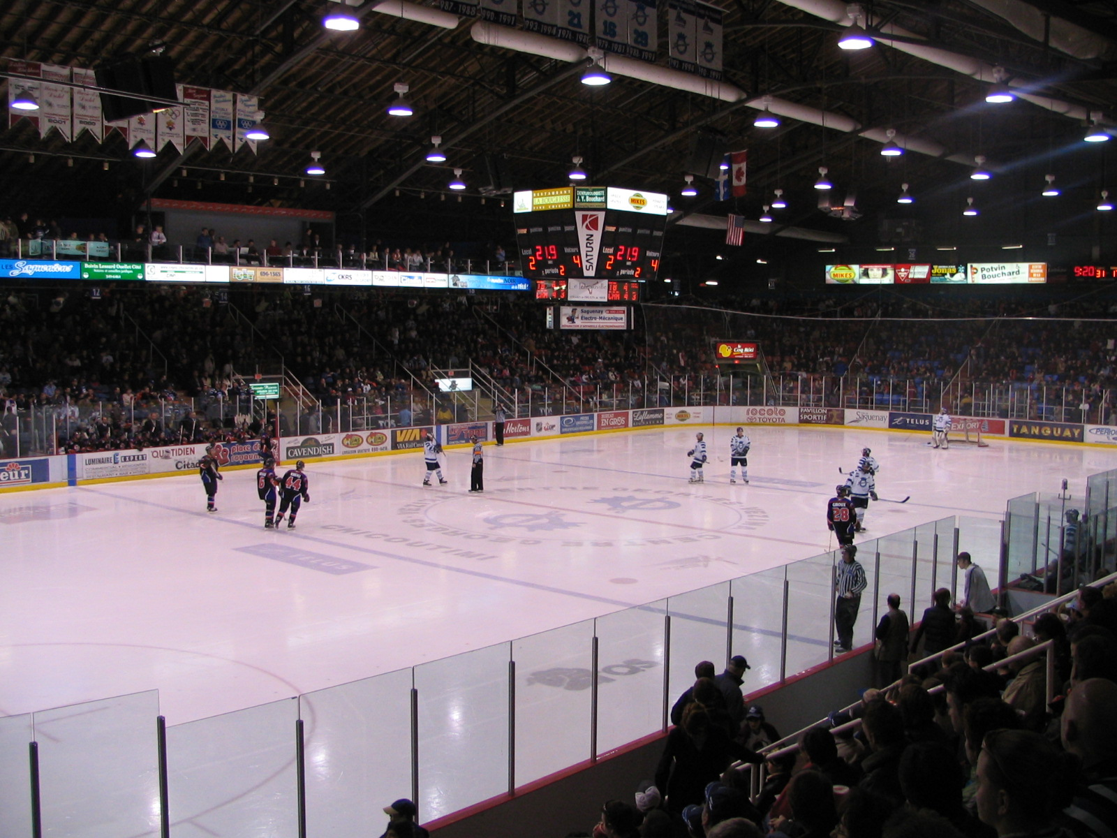 Georges-Vézina Center